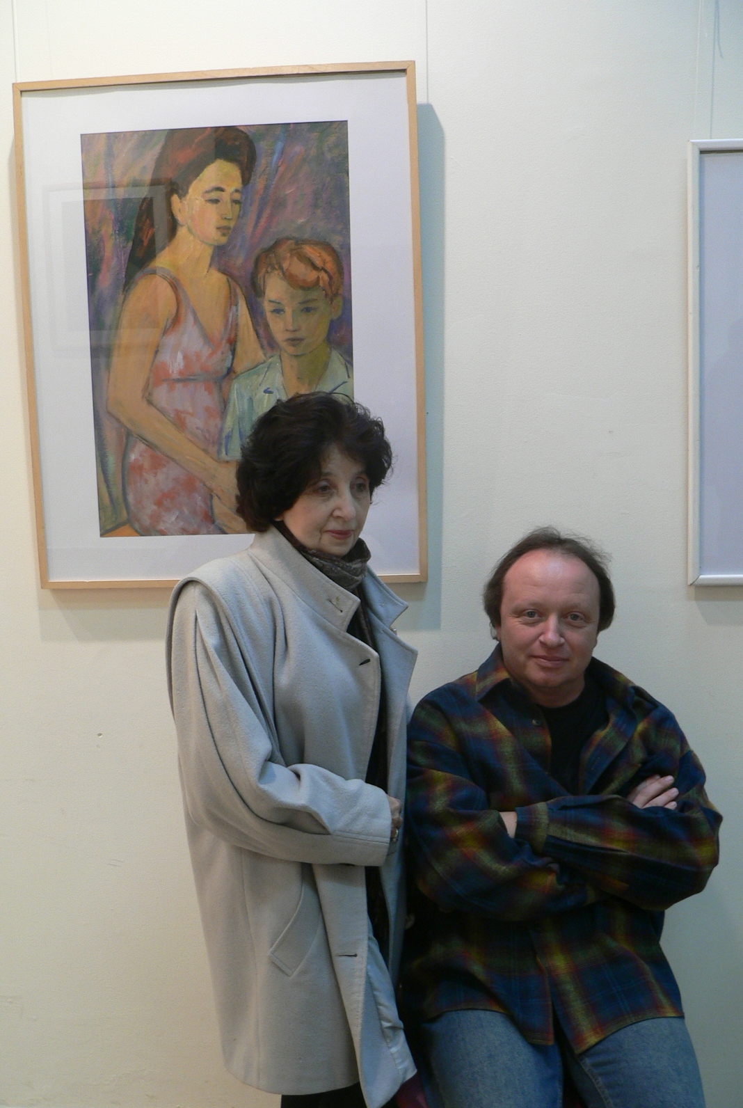 Meer Akselrod. "Portrait of daughter Helena with her small son Misha". In front of the portrait the same persons in live after 40 years